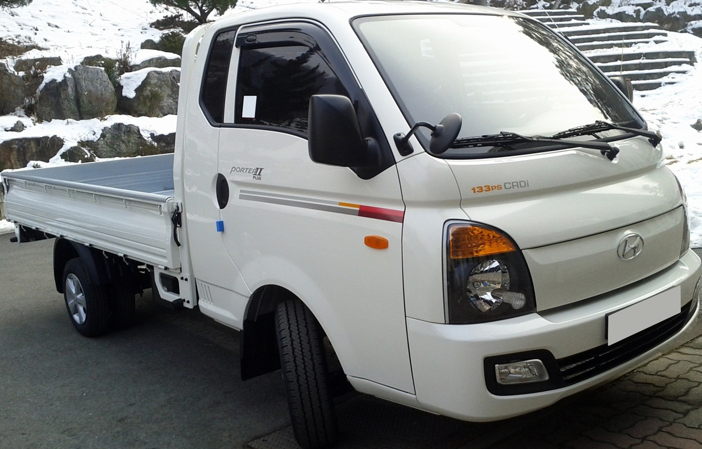 Hyundai Porter2